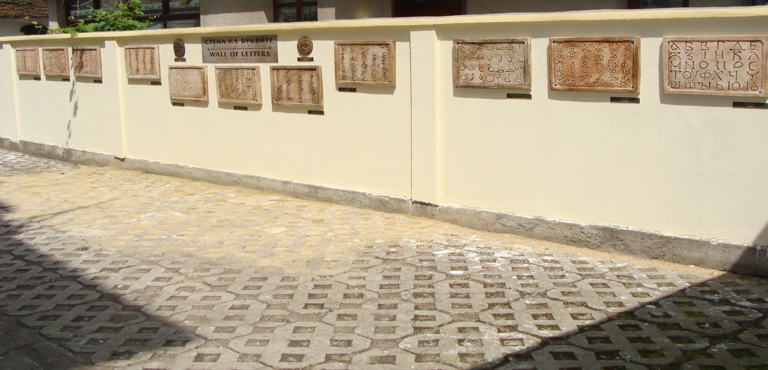 The Wall of the Letters